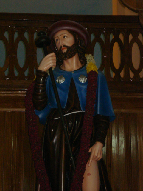 this is the statue of St. Arockiya Nathar